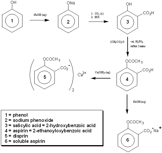 Structural formulae for the preparation of aspirin.